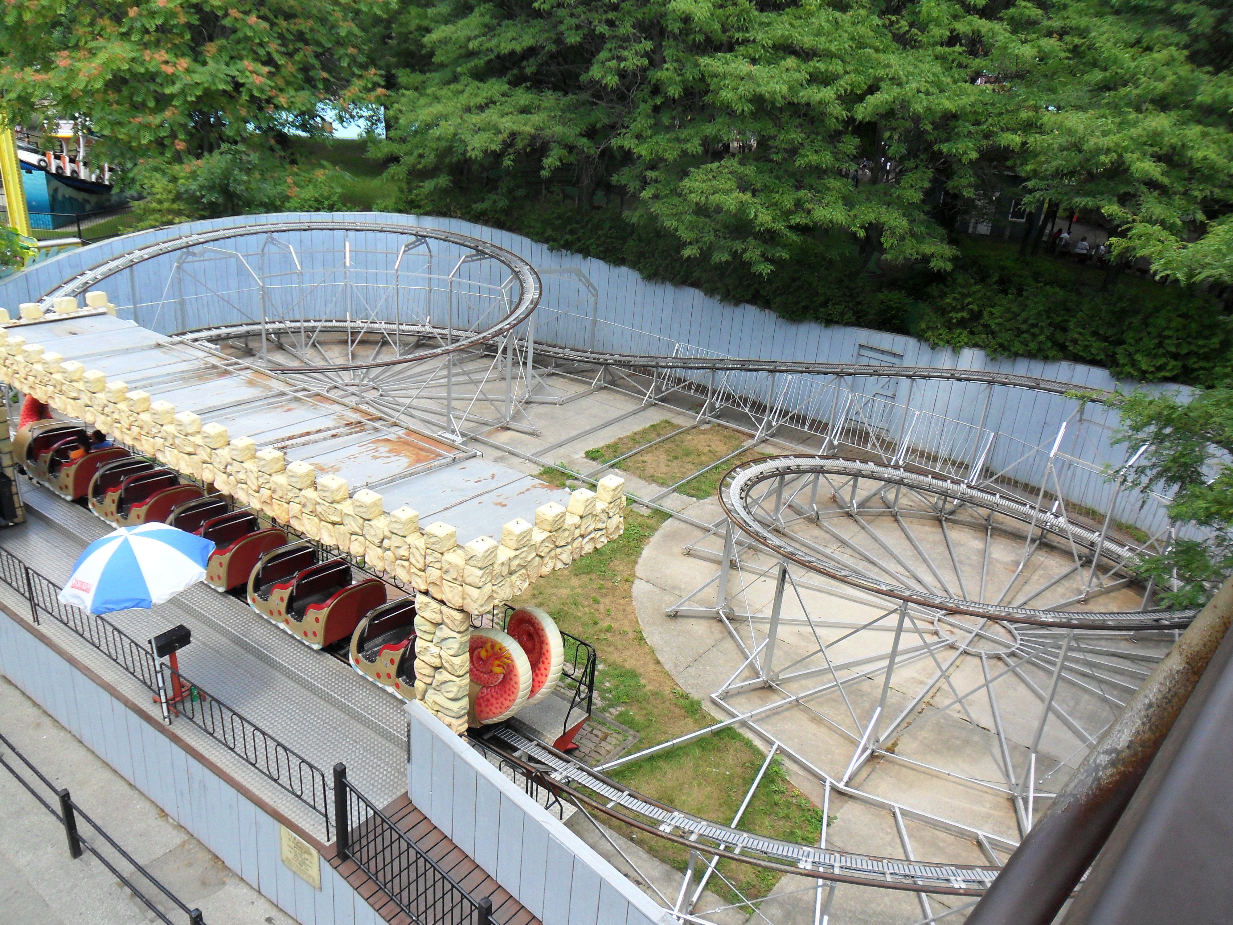 View from the sky ride of the Island Monster roller coaster at Centreville Amusement Park, Toronto, Canada